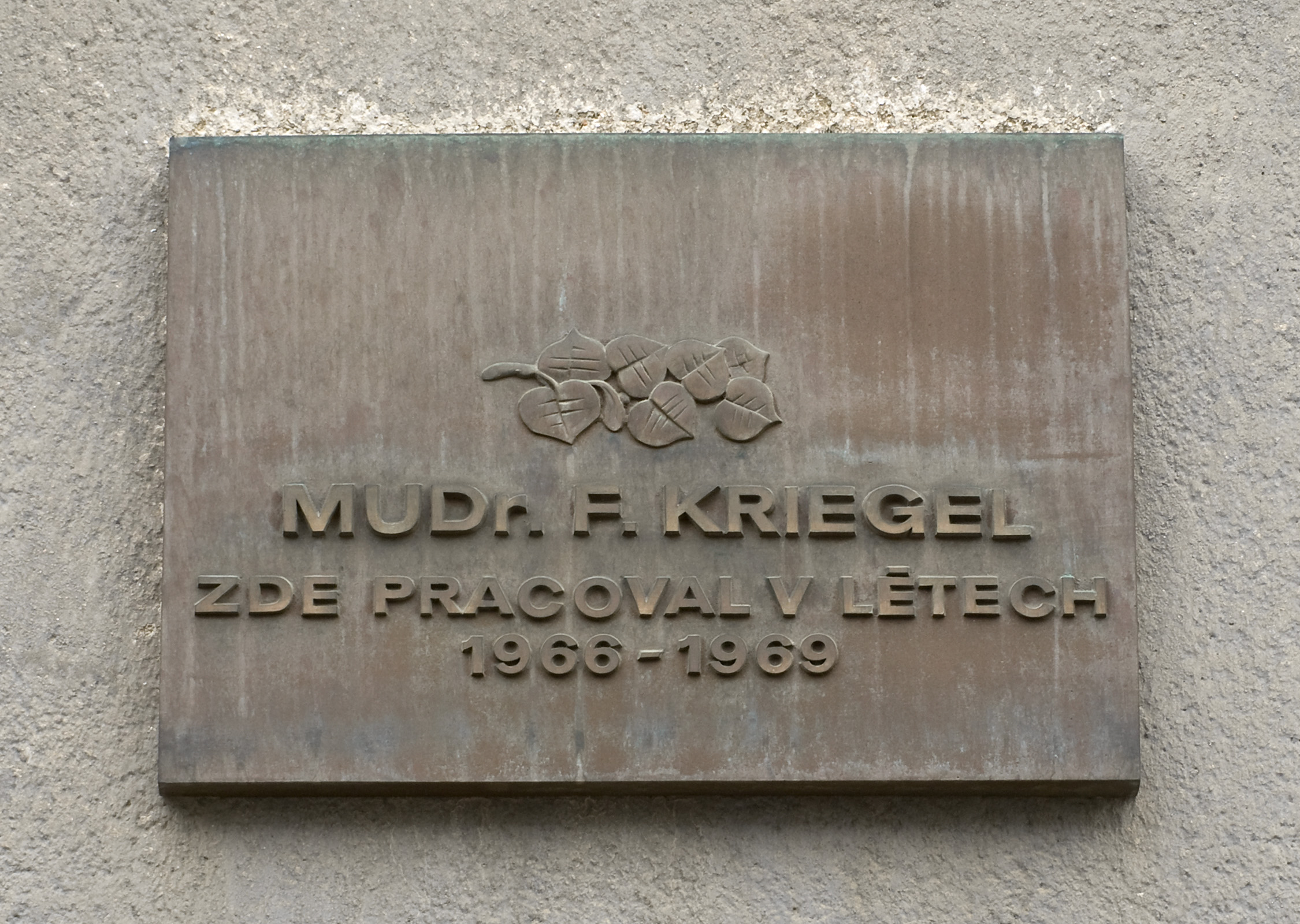 Plaque of Czech physician and communist politician František Kriegel on A4 pavilion wall in Thomayer Hospital, Prague, where he worked 1966–1969